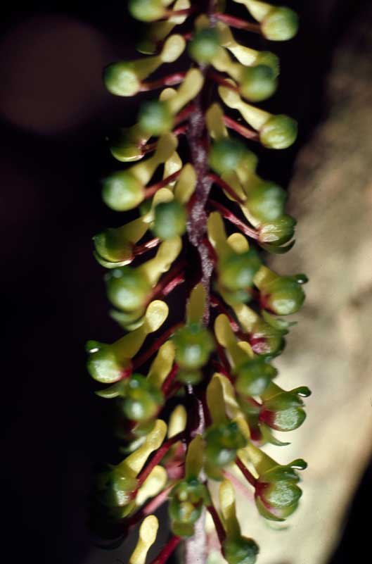 Robiquetia wassellii at Lankelly Creek, Queensland